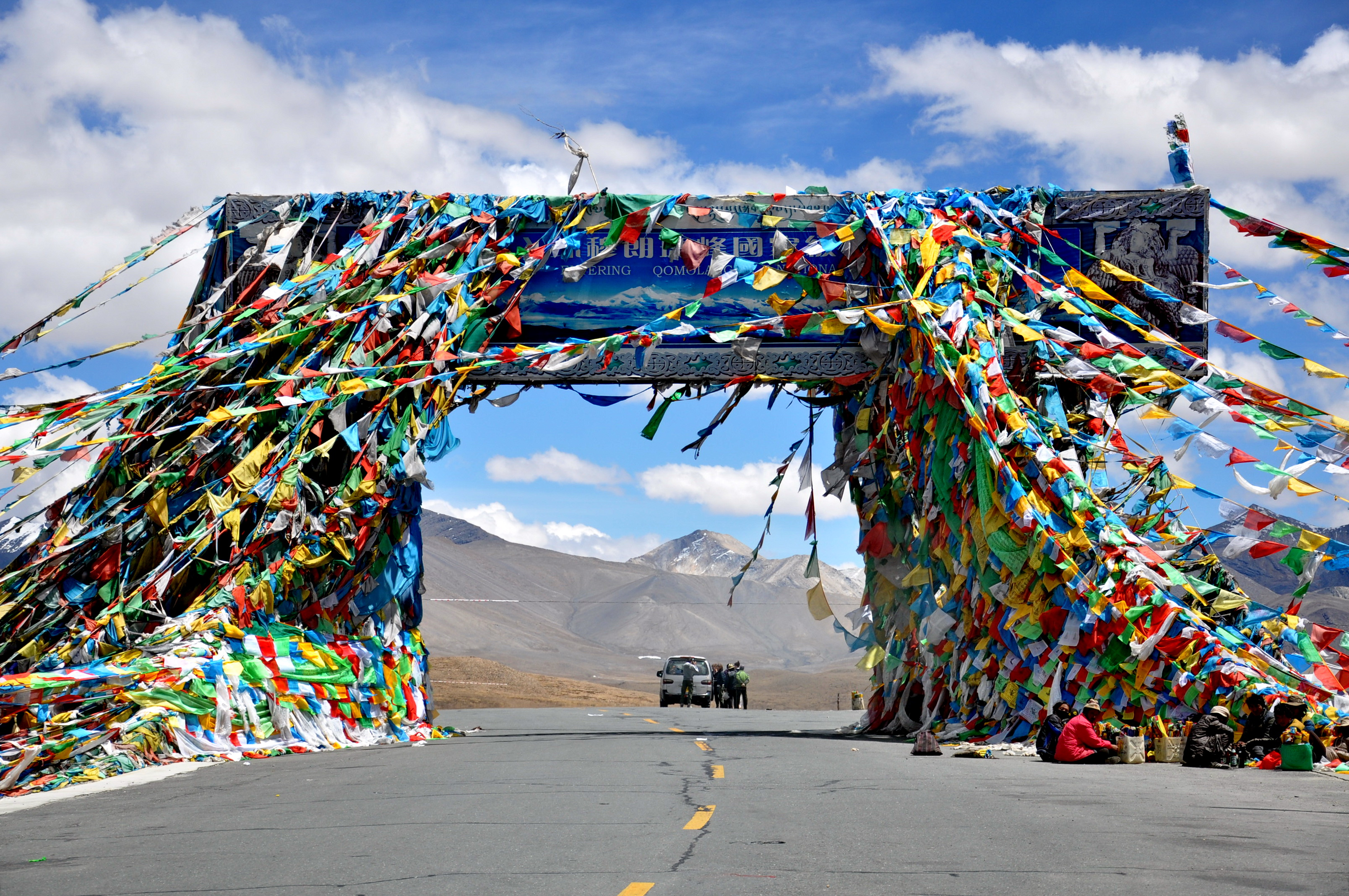 Friendship Highway (G318) !: Lhakpa La pass (5283 m)